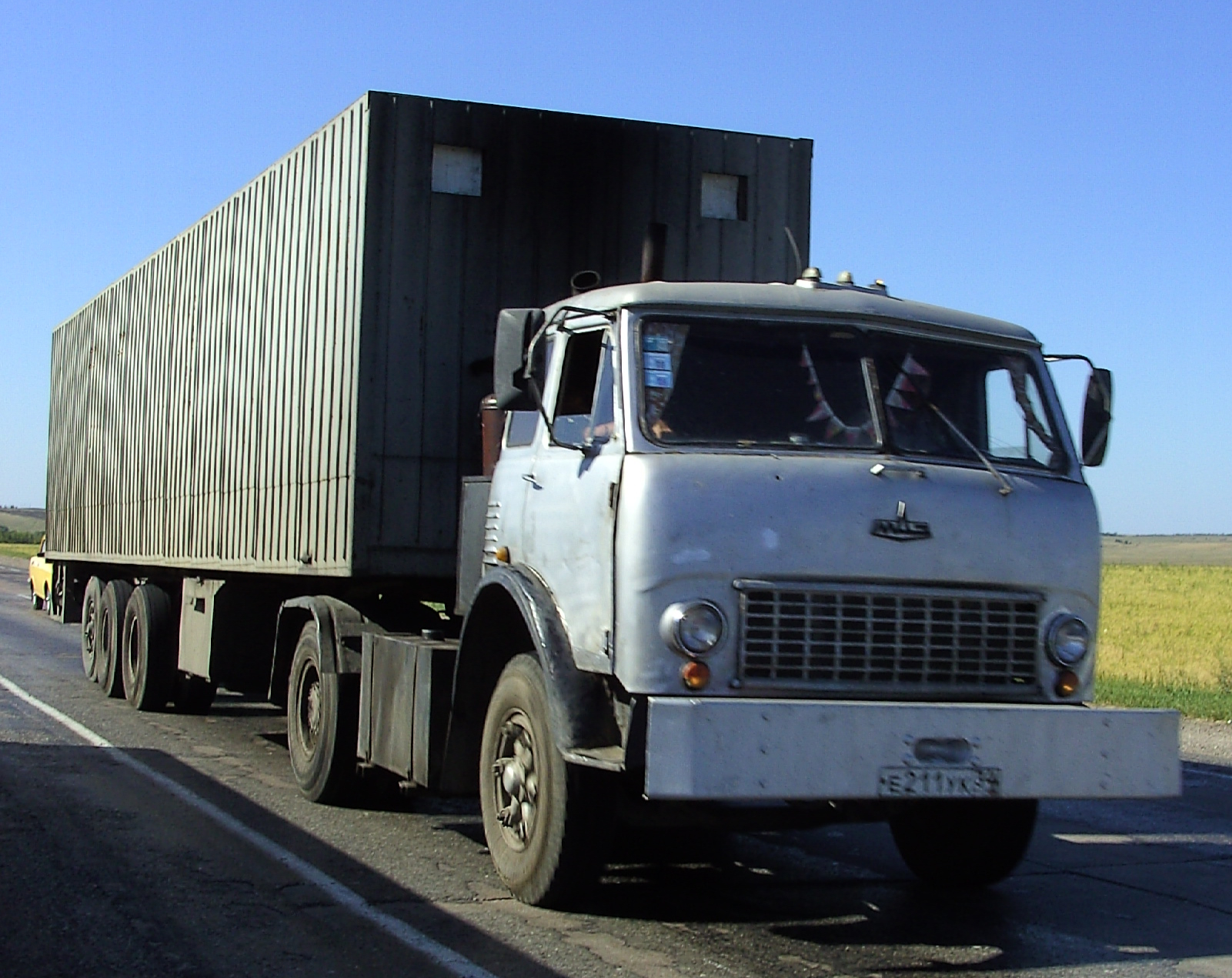 A MAZ-504 (МАЗ-504) in Russia.